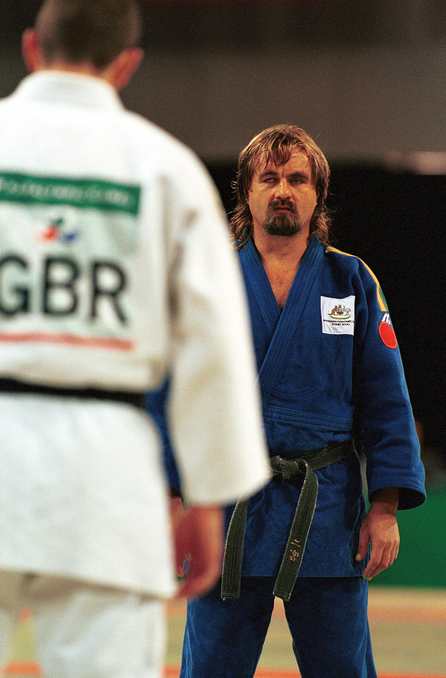 Australian judoka Anthony Clarke faces his opponent Ian Rose during 2000 Sydney Paralympic Games match